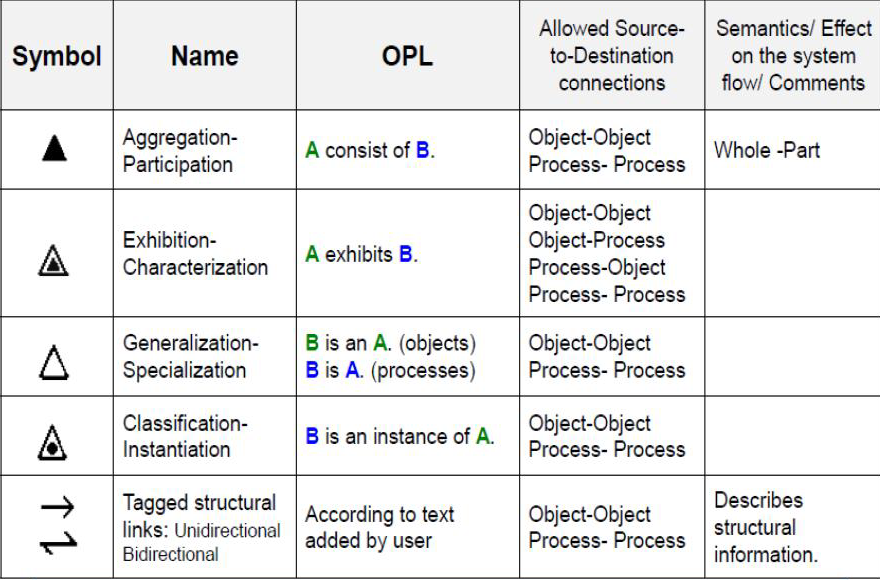 OPM Sructural Links